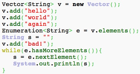 This is Java code that violates the UnsafeEnum specification.